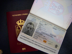 New Biometric Passport of Serbia. Page containing personal data and Passport cover behind. Sample.